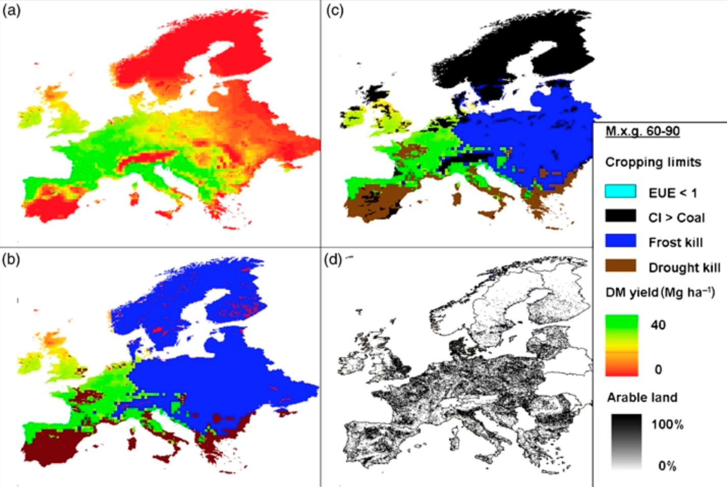 Miscanfor computer model estimate of Miscanthus x giganteus yields for Europe, based on collected weather data from 1960 to 1990. Black = excluded area, blue = too cold, brown = too dry, red to yellow to green = 0 - 20 - 40 tonnes peak dry mass yield per hectare per year. Original caption text: "Miscanthus×giganteus mean peak dry matter yields for the period 1960–1990 calculated using MISCANFOR (a) compared with the distribution of Arable land in 2000 for EU27 (d). (b) Dry‐matter yield map with frost kill mask (blue) and drought kill mask (brown) superimposed. The CORINE (2005) land use data set on a 250 m × 250 m grid is used to derive the 5′× 5′ grid map of the % arable land displayed in (d). The resulting mean carbon intensity (CI) of M.×giganteus used as a furnace fuel calculated from this mean yield and the soil organic carbon (SOC) is compared with those of coal is shown as black mask in (c) and areas where the energy‐use efficiency (EUE) is less than unity are displayed in (c) as light blue."